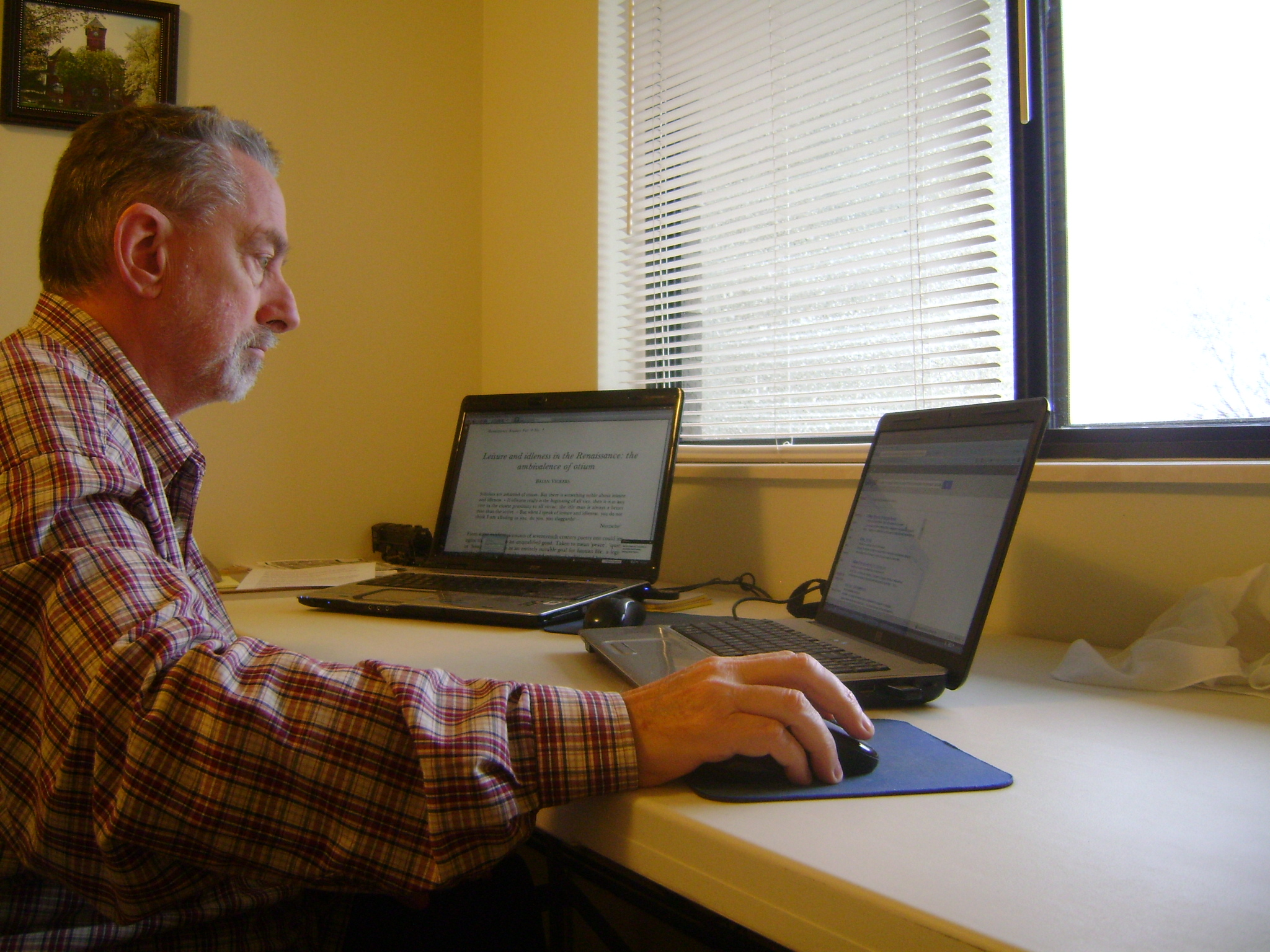 Wikipedian Doug Coldwell writing Wikipedia articles as a hobby in his retirement leisure (otium). Front Page newspaper article "Hobby", page 2